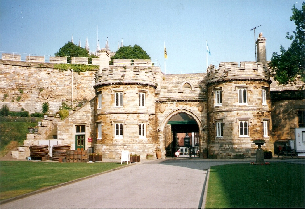 View from inside Lincoln Castle of main gatehouse